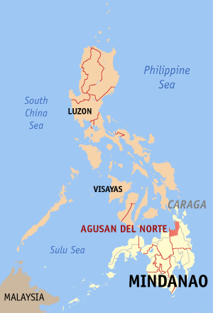 Map of the Philippines showing the location of Agusan del Norte